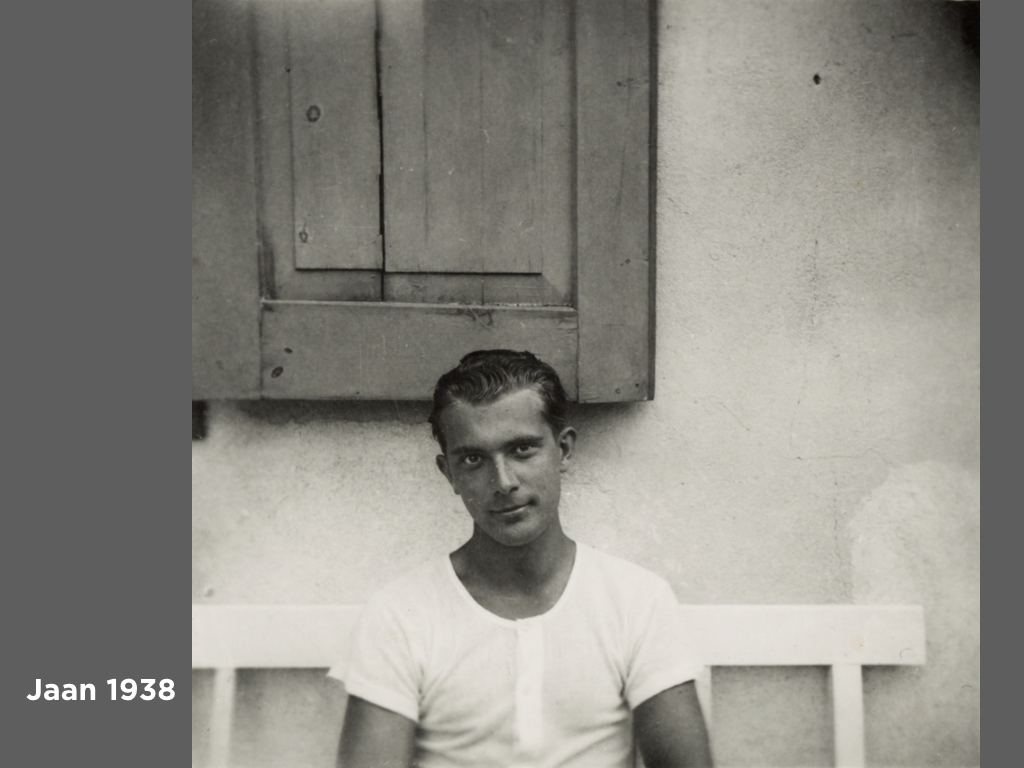 Future Estonian writer Jaan Kross in 1938